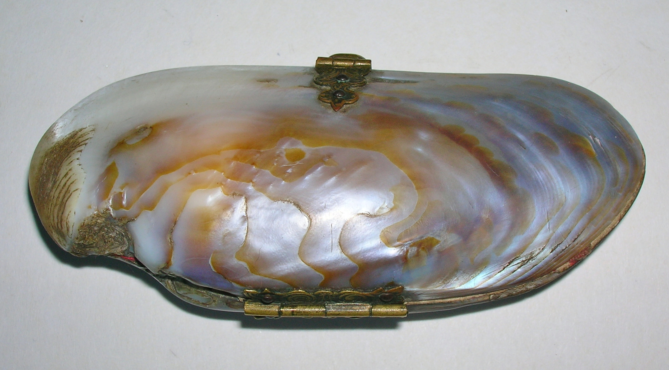 Victorian Shell Purse - Mussel - Exterior. Probably Anodonta Sps., the Freshwater Mussel.